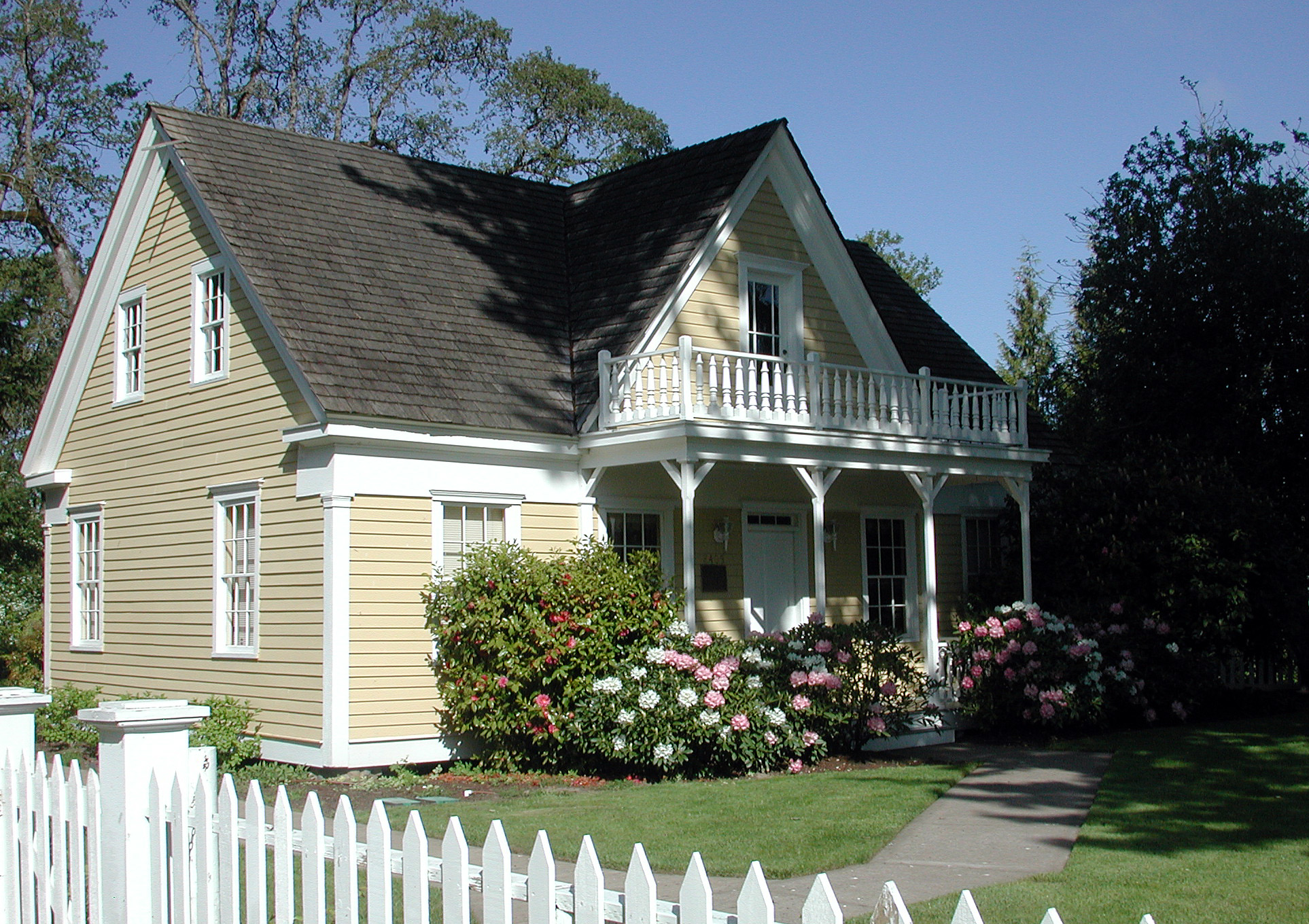 Fanno Farmhouse, 8385 Southwest Hall Boulevard, Beaverton, Oregon, was the home of Augustus Fanno, for whom Fanno Creek is named. The house, built in 1859 and restored by the Tualatin Hills Park & Recreation District., was added to the National Register of Historic Places in 1984.